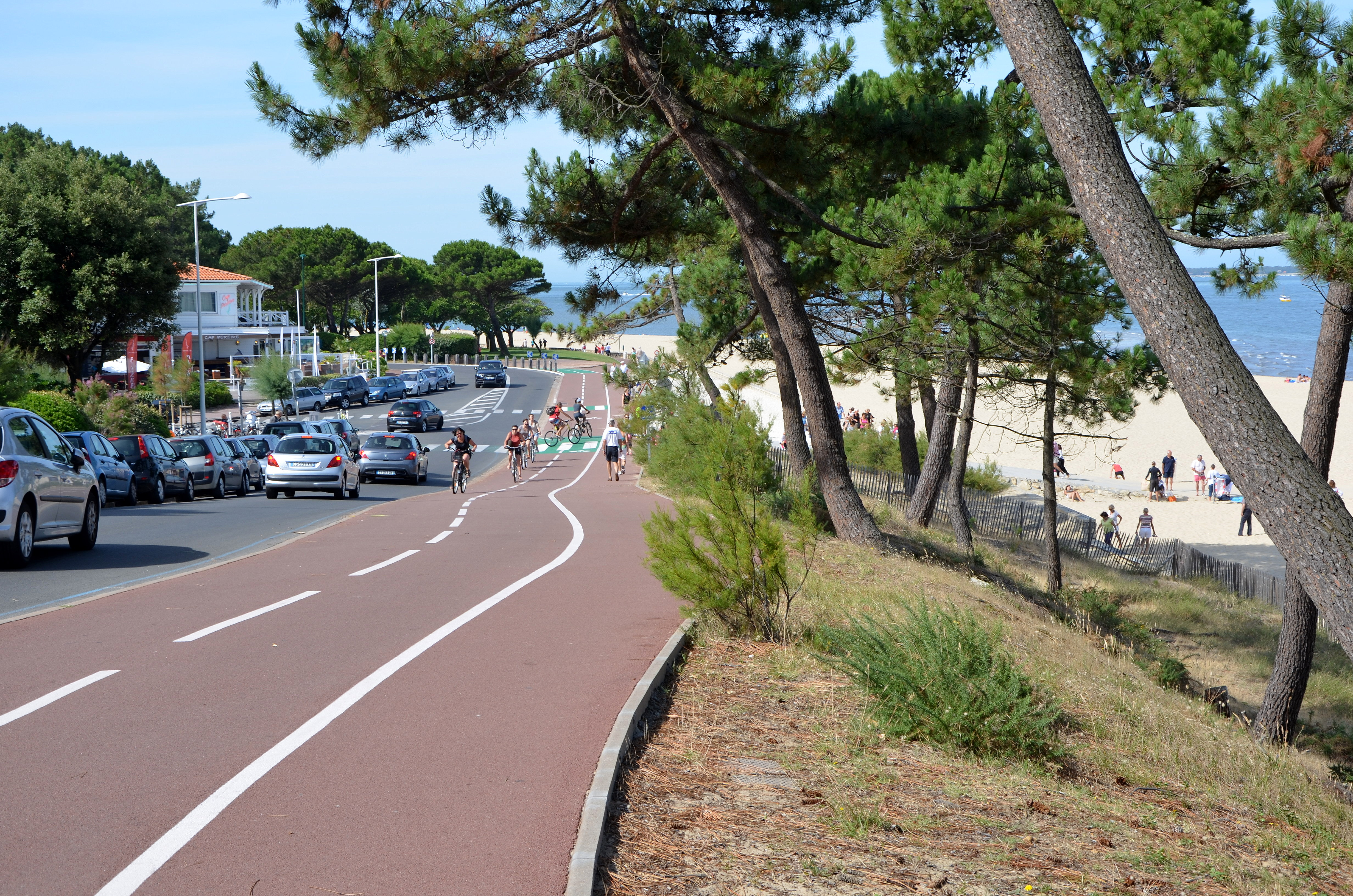 bikeway in Arcachon , Gironde, Aquitaine, France